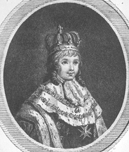 Etching of King Louis XVII of France and of Navarre in coronation robes (ficticious), edited by Klauber, brothers..